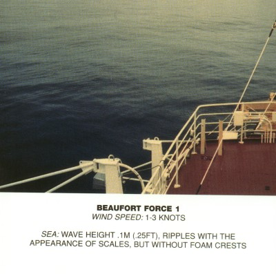 Beaufort scale 1 image